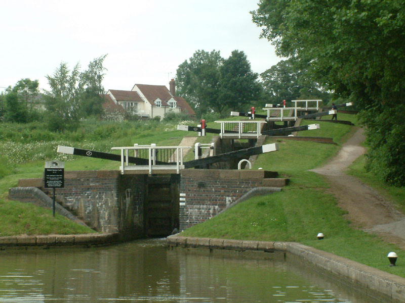 The 4-lock staircase, part of Watford Locks on the Grand Union Canal. Photograph by Stephen Dawson, 5 June en:2004